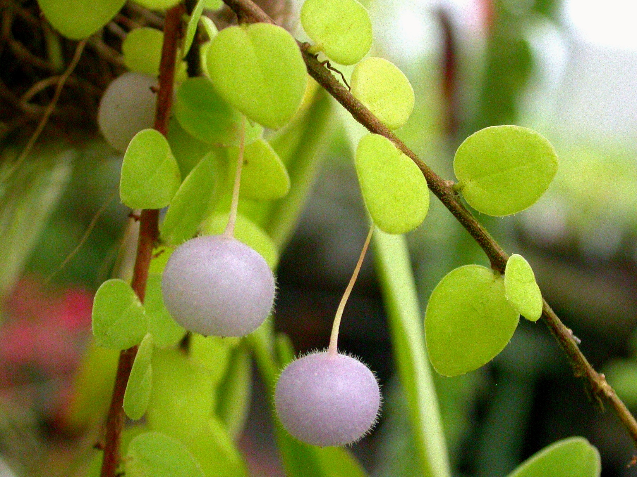 Sphyrospermum buxifolium, Botanical Garden Teplice, Czech Republic